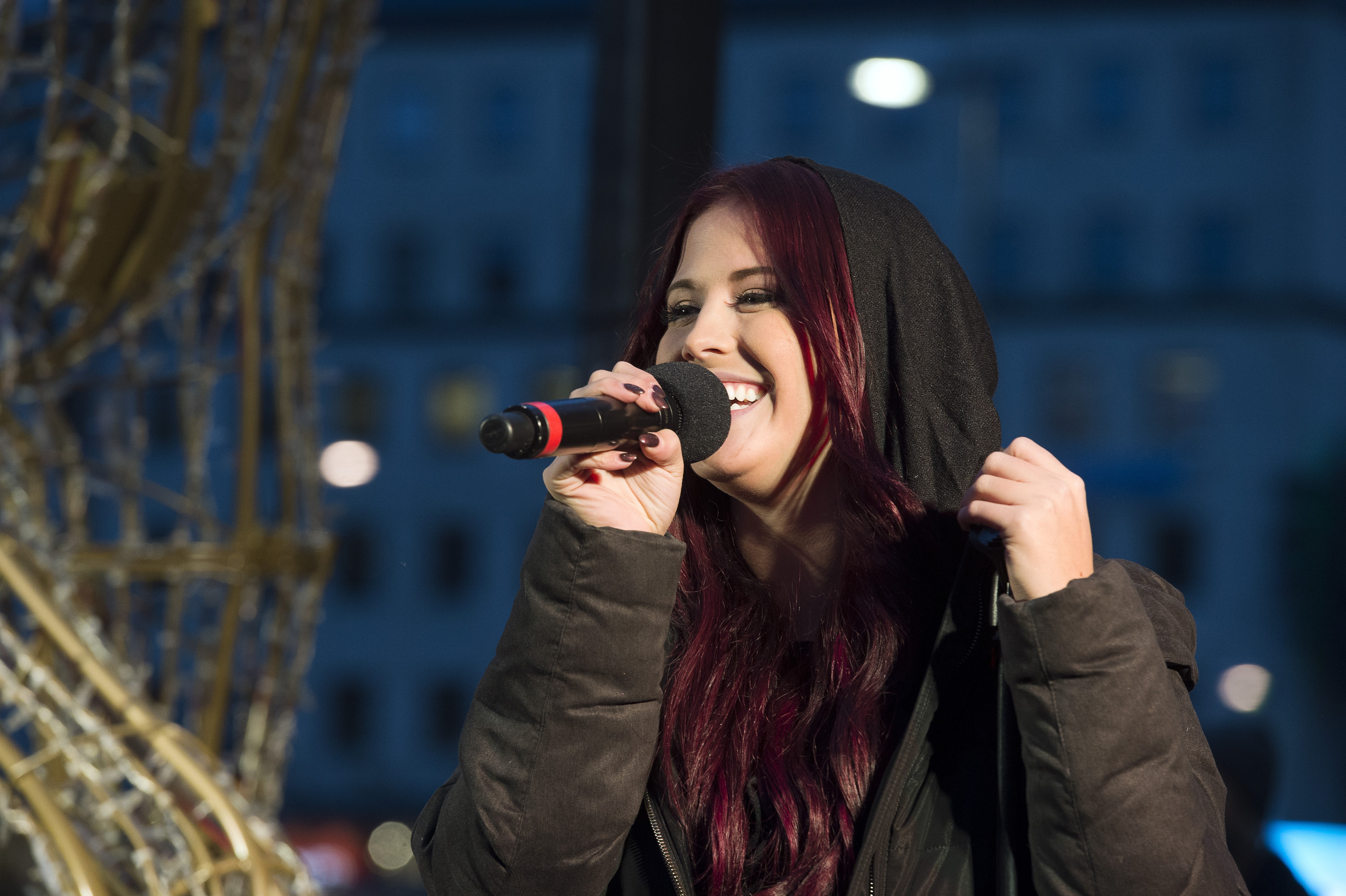 Molly Sandén